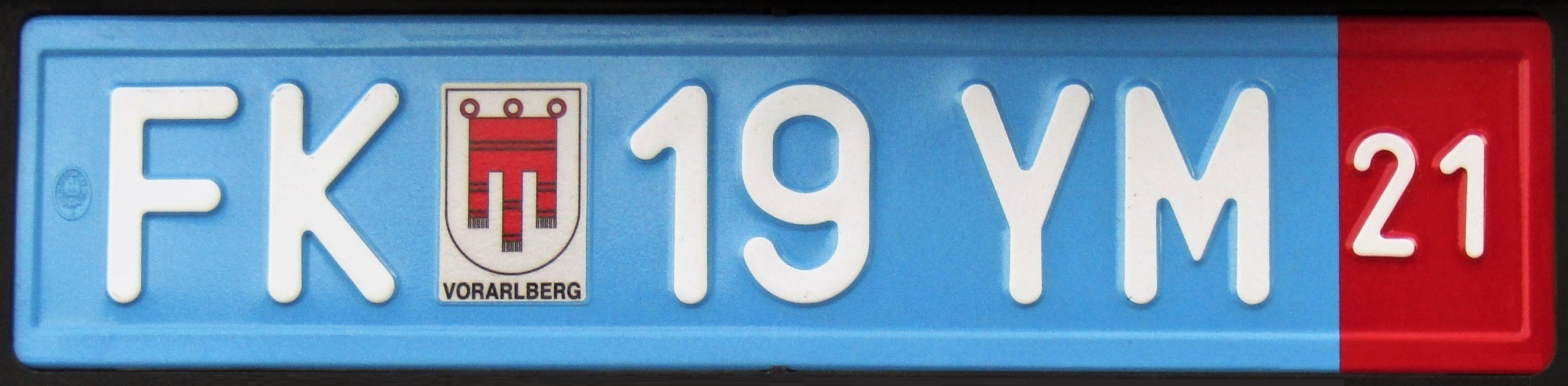 Austria temporary license plate Feldkirch